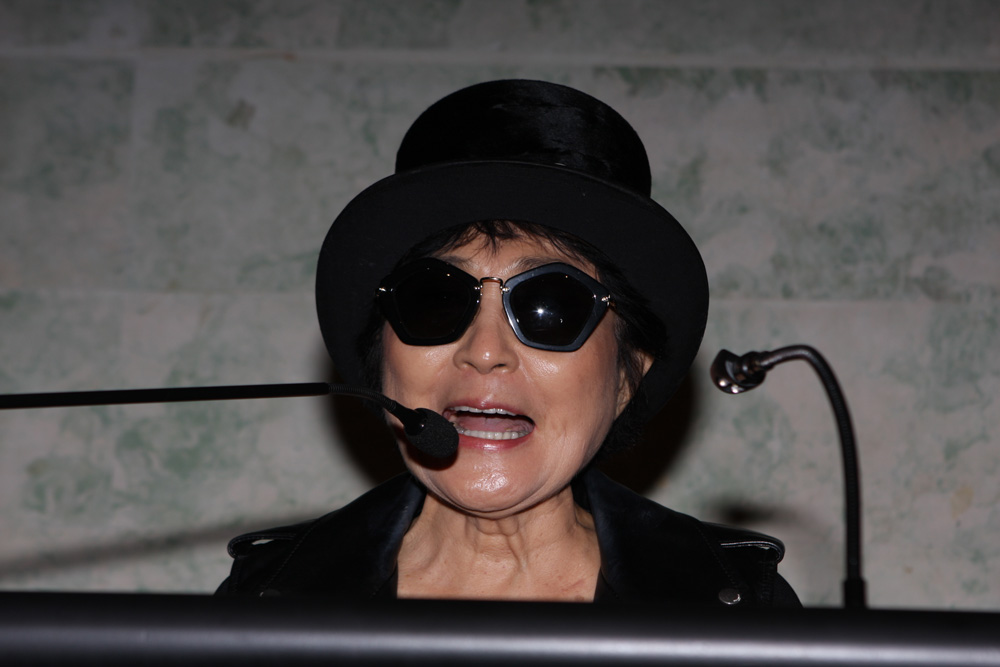 'War Is Over! (if you want it) Yoko Ono' exhibition - Sydney, Museum of Contemporary Art Australia